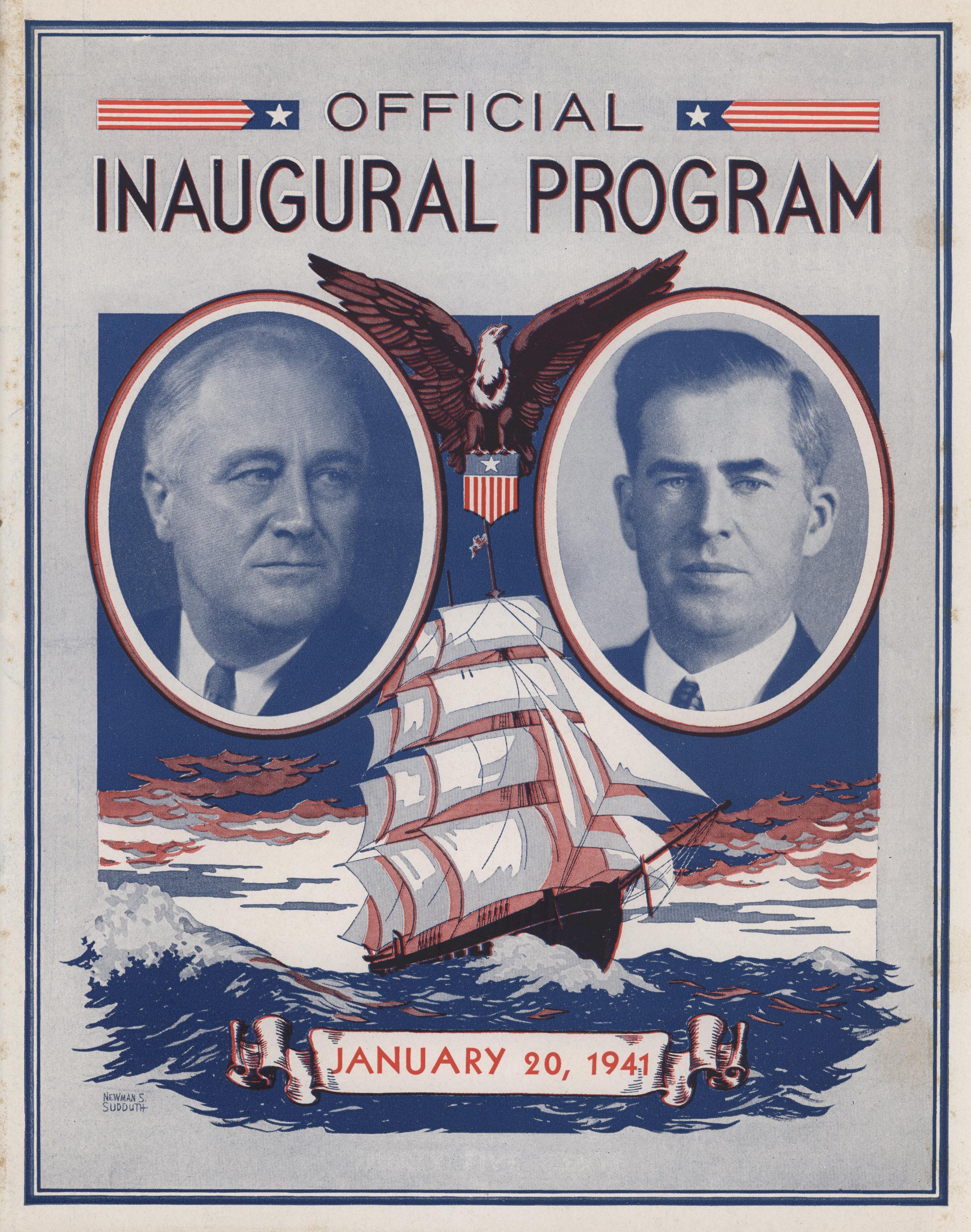 The cover of the official program of the ceremonies for the third inauguration of Franklin D. Roosevelt and Henry A. Wallace, held on 20 January 1941. From the Thaddeus Sandifer Collection (COLL/780), Marine Corps Archives & Special Collections OFFICIAL USMC PHOTOGRAPH